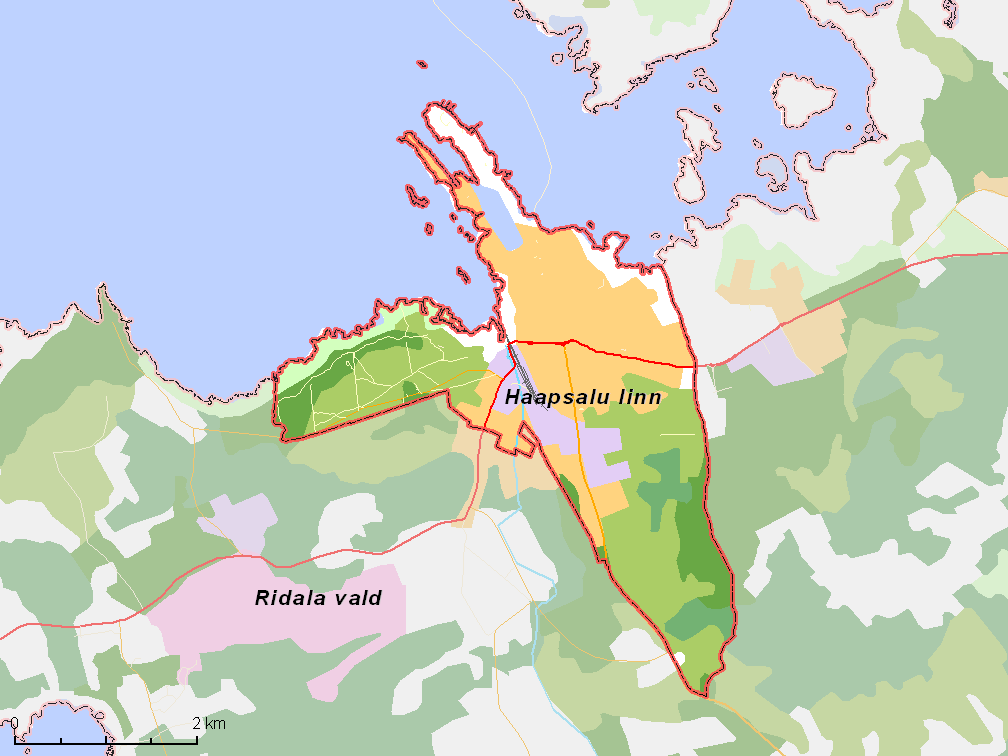 Map of municipality in Estonia